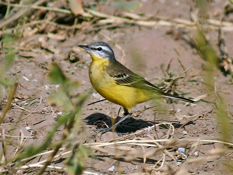 Yellow Wagtail Motacilla flava at Hodal, in Faridabad, District of Haryana, India.